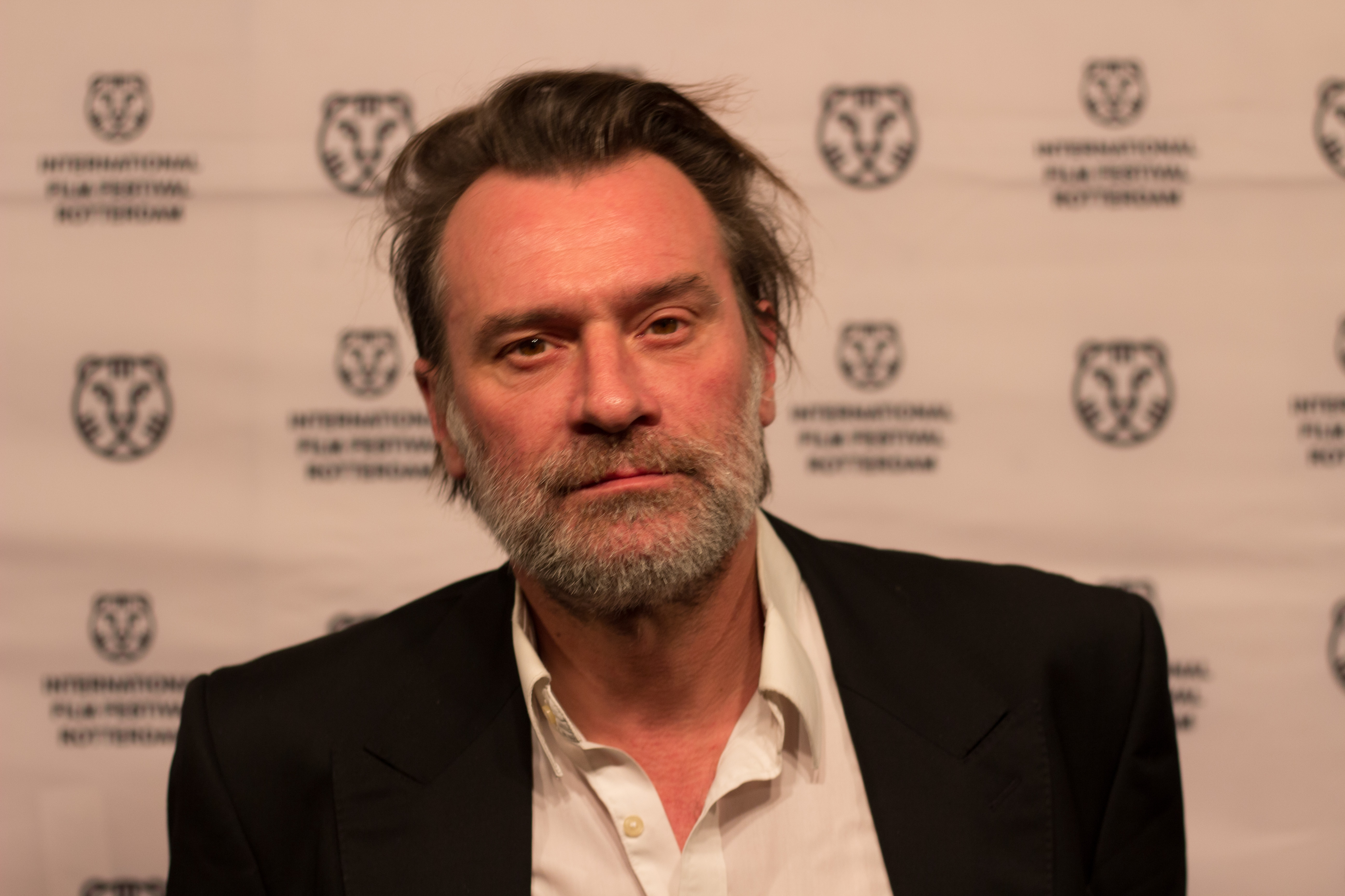 Daan Stuyven at the IFFR 2020 to promot the movie "Éden"